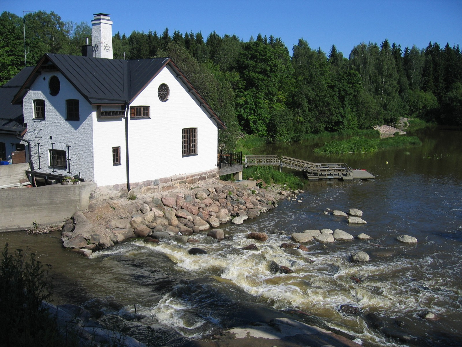 An old factory, now a restaurant, by Vantaankoski rapids in Viinikkala, Vantaa, Finland